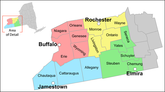 An image detailing the area of responsibility for the FBI Buffalo Field Office (The following is the description taken from image metadata on the FBI Buffalo Website) Orientation of image: 1 File change date and time: 2010:04:09 13:44:24 Software used: Adobe Photoshop CS3 Windows